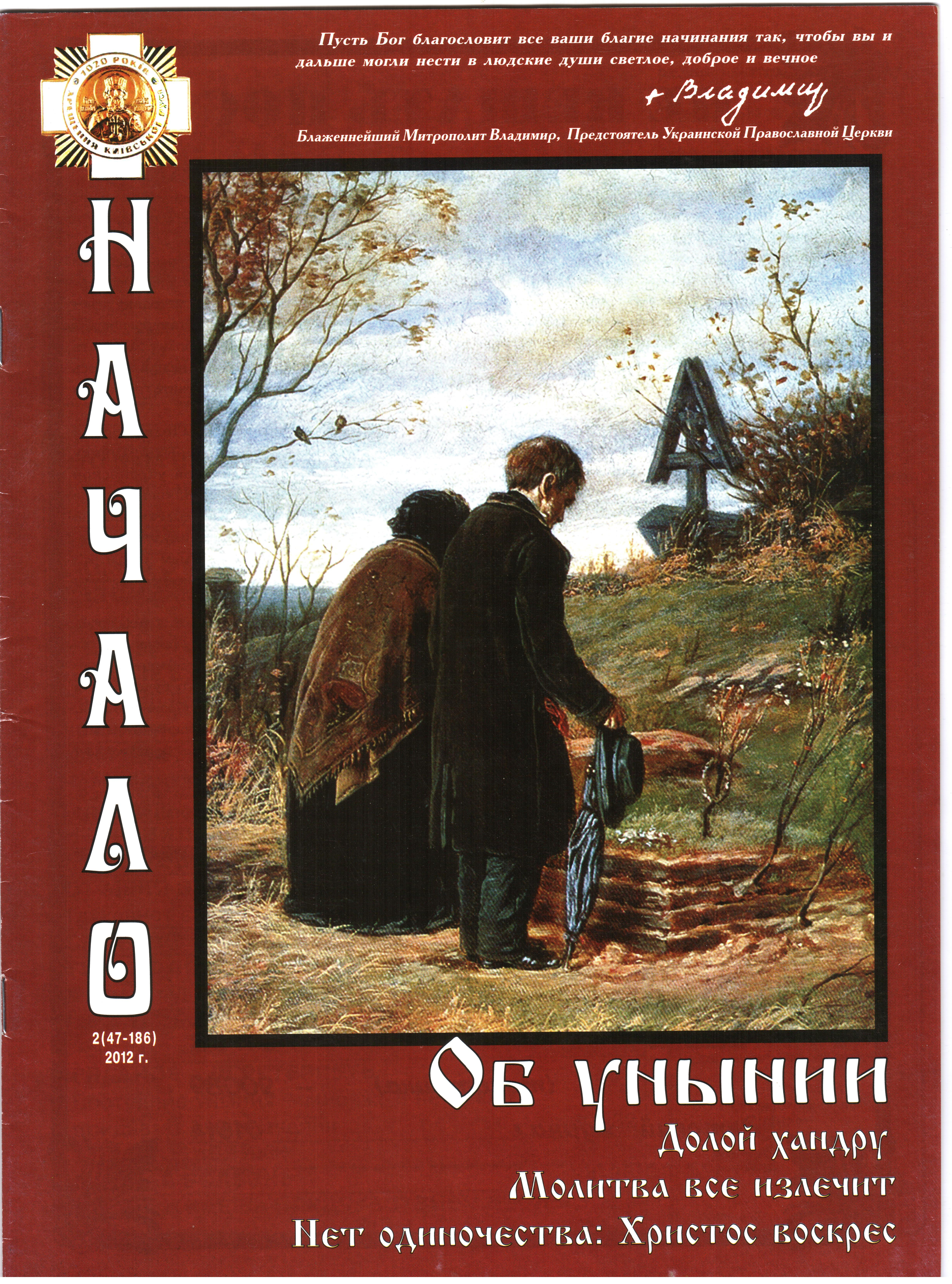 Vasilij Perov. Oil on canvas. End 19 с.